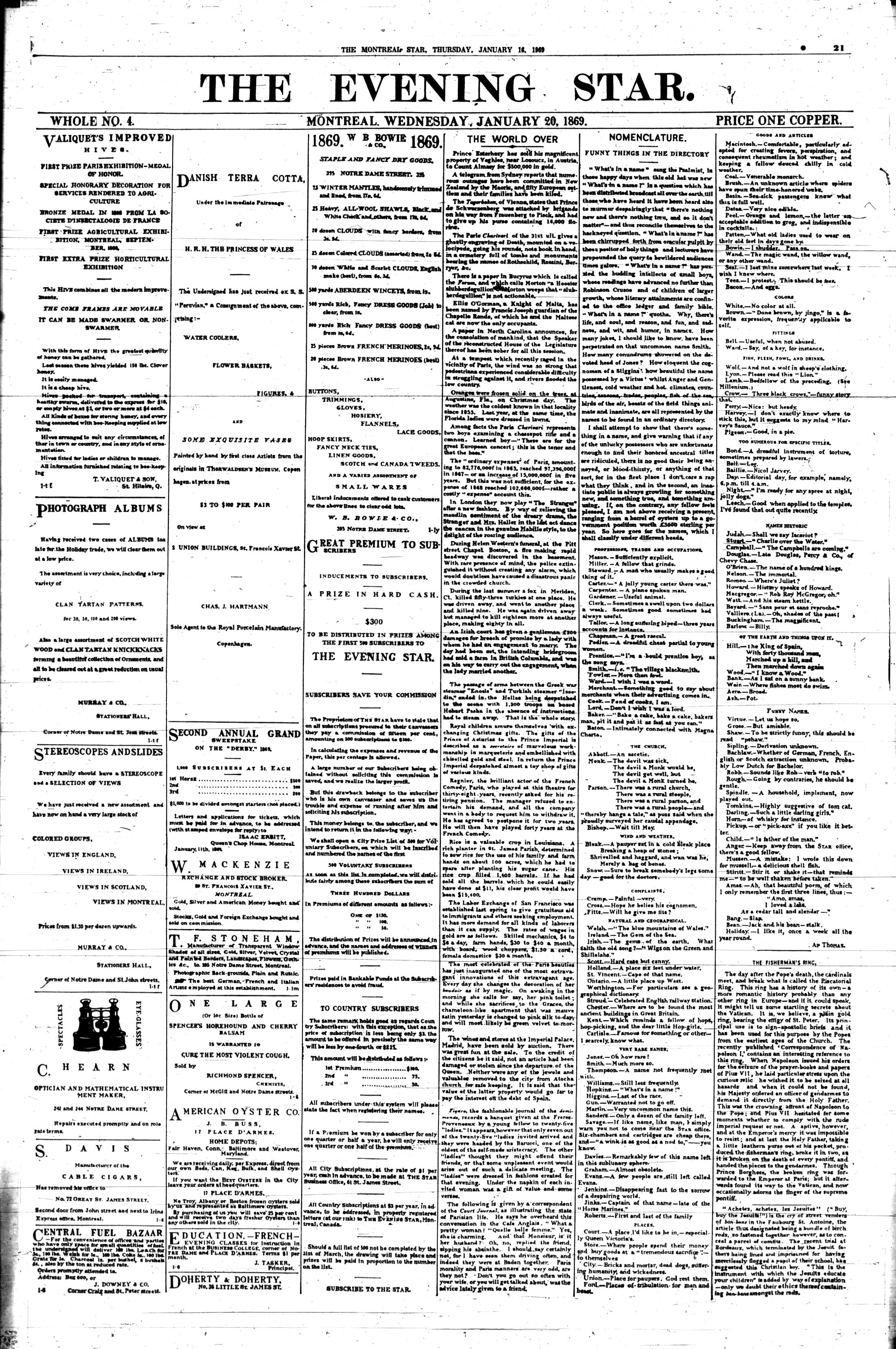 The Evening Star, page one. Clean version of the volume 1 number 4, dated Wednesday January 20 1869 published one hundred years after. It is the first number available.